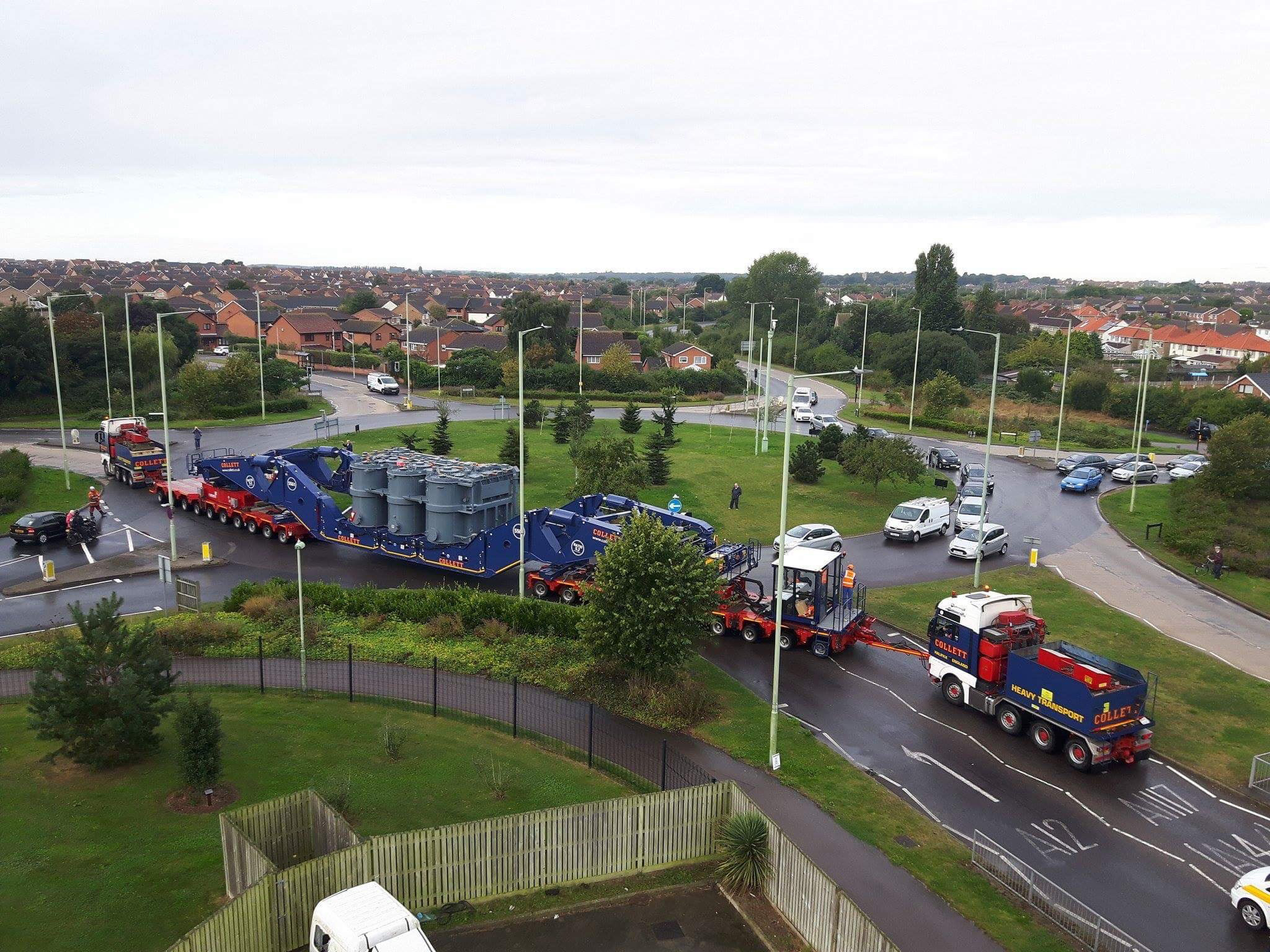 Collett's Scheuerle 550 Girder Bridge, transport of Galloper Substation Transformer